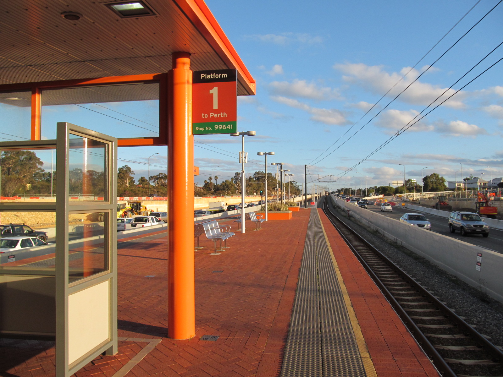 Looking south along the Bull Creek station platform in Perth, Western Australia.